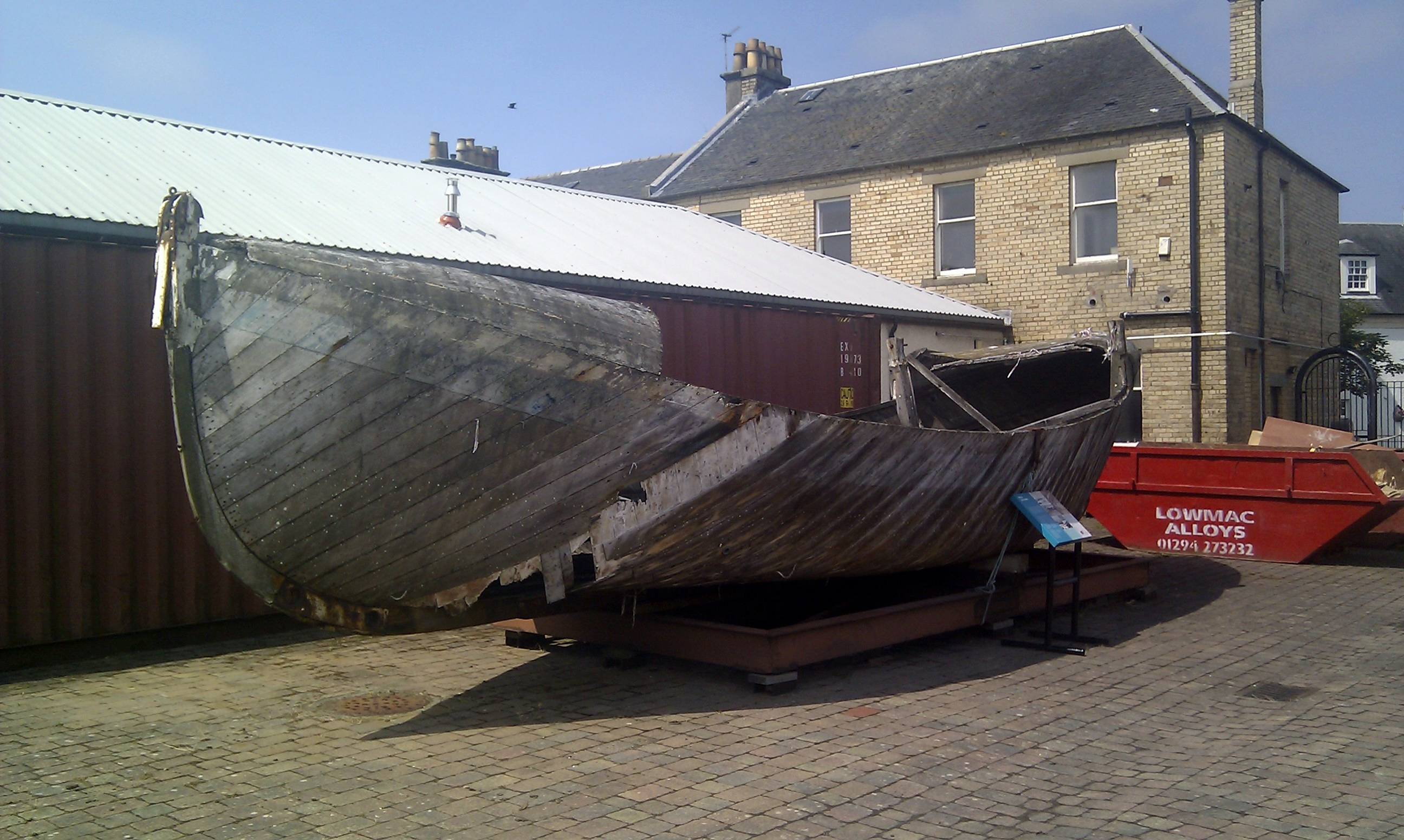 The Jane Anne lifeboat at Irvine Maritime Museum, North Ayrshire, Scotland